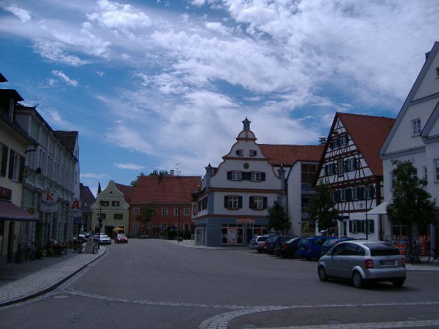 Town centre of Wertingen